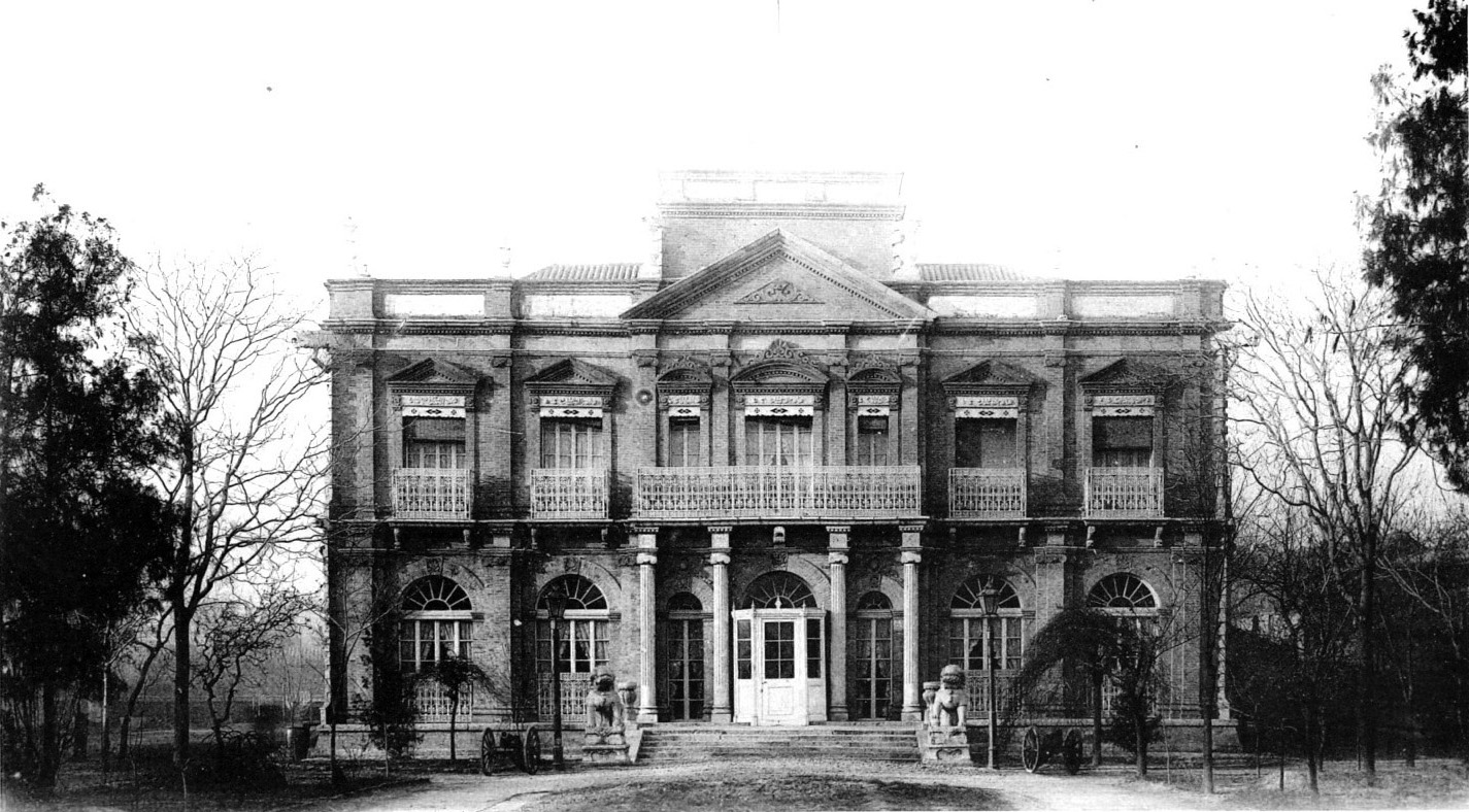 Image from La Chine à terre et en ballon.